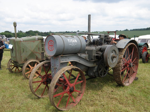 Classic tractors at Mansells farm, Codicote, Hertfordshire, Great Britain. A Titan by International Harvester and behind it a an early Renault tractor displayed at the Codicote Steam and Country show.